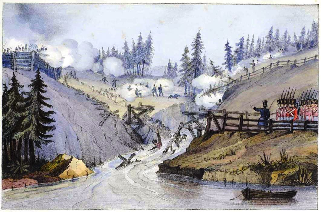 A Fortified Pass - Colonel Wetherall Advancing to the Capture of St. Charles, 25th Novr 1837Originally published in the book: Lithographic views of military operations in Canada under His Excellency Sir John Colborne, G.C.B. etc. during the late insurrection. From sketches by Lord Charles Beauclerck, captain Royal Regiment. Accompanied by notes historical and descriptive.London : published by A. Flint,1840